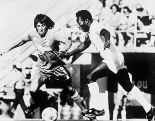 Las Vegas Quicksilver player, Brian Joy, in action vs Pelé of NY Cosmos.